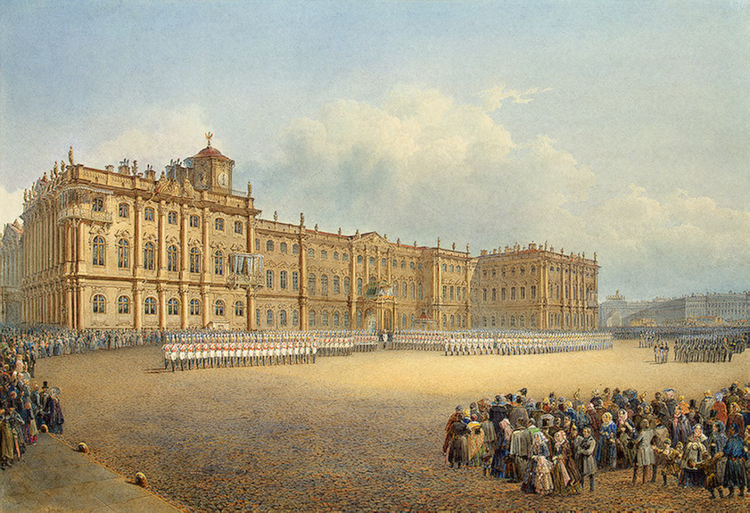 “Arch of General Stuff Building” by Vasily Sadovnikov. Watercolor.)